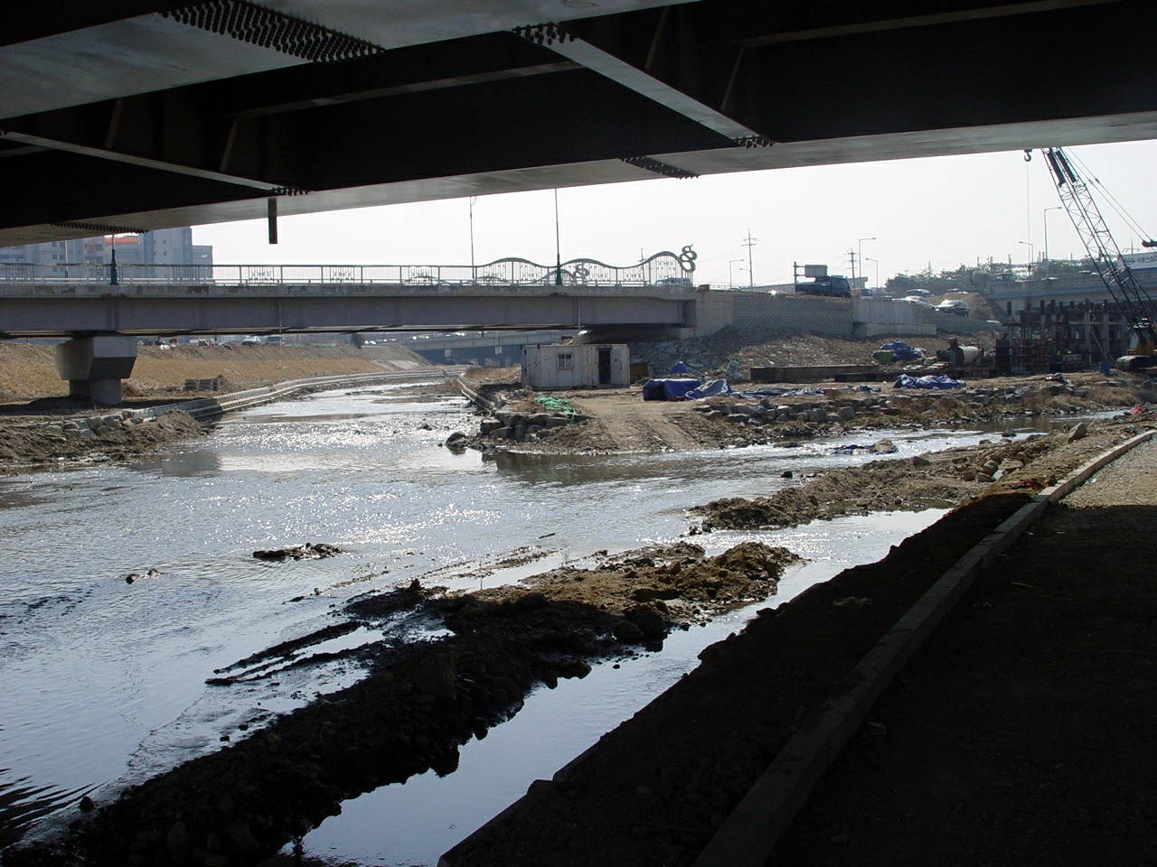 The Pungdeokcheon does in fact join the Tancheon from the west, so the Tancheon, in this photo, is upstream ahead and downstream to the left (and behind the camera), whereas the Pungdeokcheon is upstream to the right. JPBarrass 15:15, 24 May 2007 (UTC)